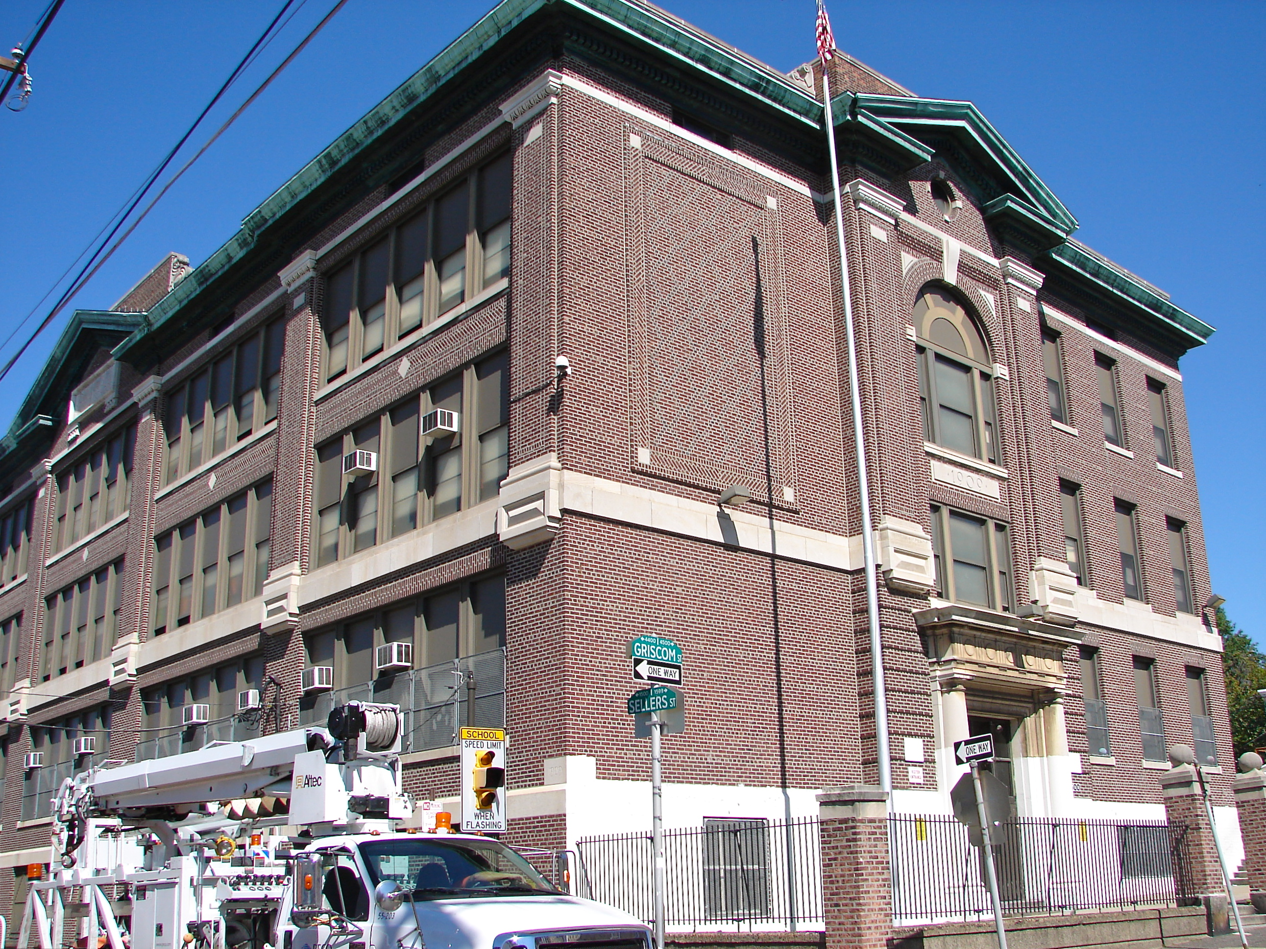 John Marshall School in Philadelphia on the NRHP since November 18, 1988. At 1501 Sellers Street in the NE Philly neighborhood of Frankford.